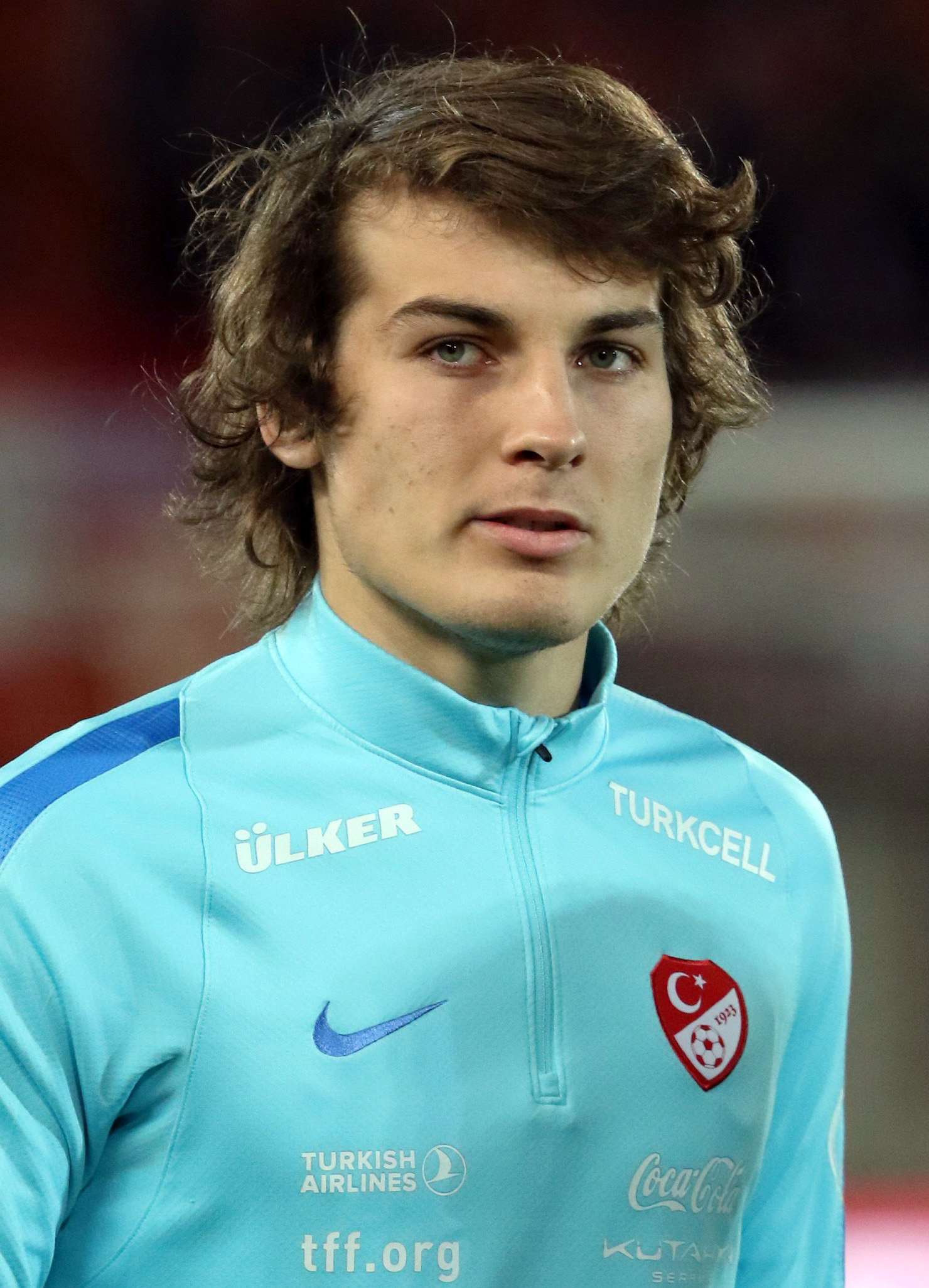 Friendly match – Austria (red shirts) vs. Turkey (blue shirts) 1–2 (1–1) on 2016-03-29 in Ernst-Happel-Stadion, Vienna – The photo shows Çağlar Söyüncü (Altınordu).